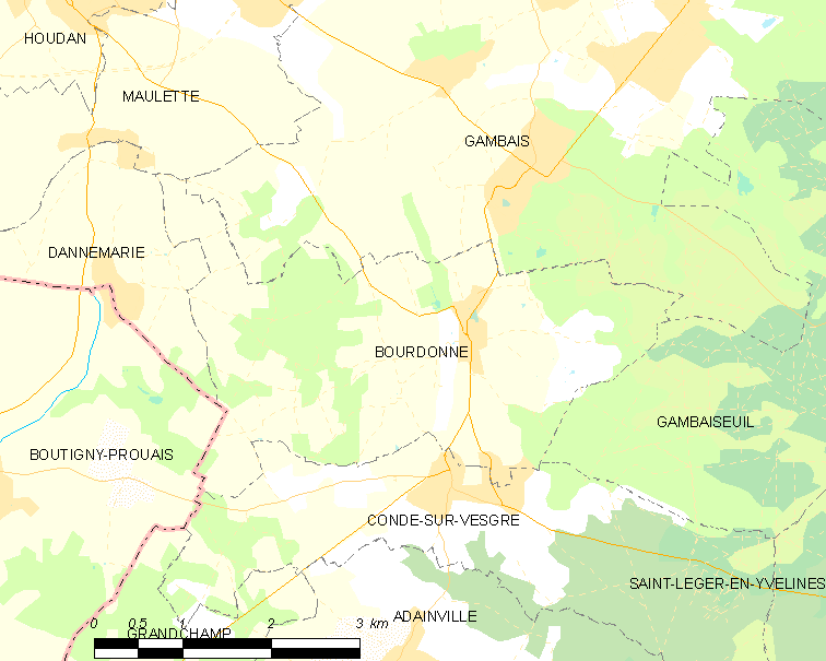 Map of French municipality Bourdonné